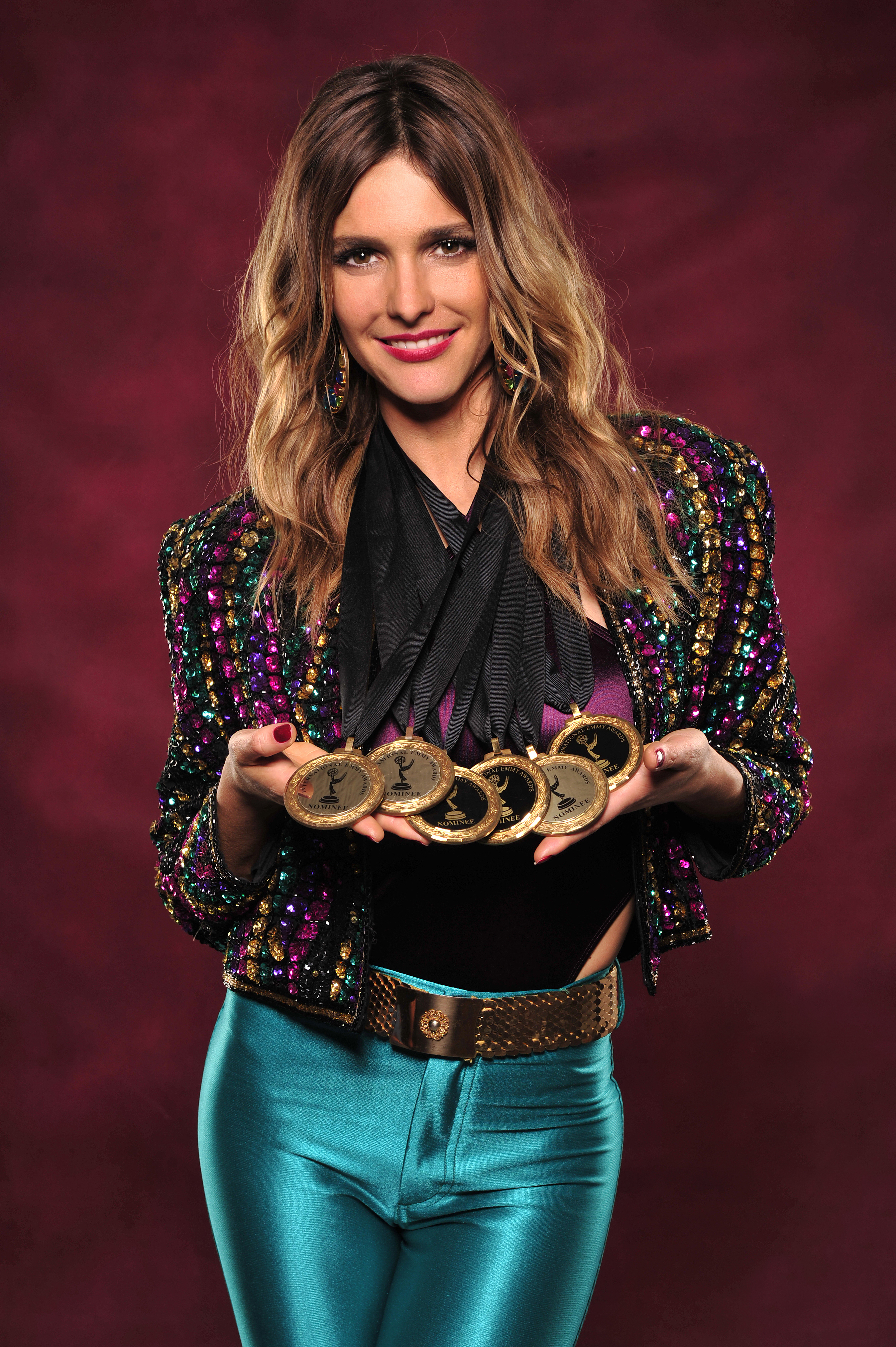 The Brazilian model, actress and television presenter Fernanda Lima with Rede Globo's six medals of nominations to the Internacional Emmy Awards in 2012.